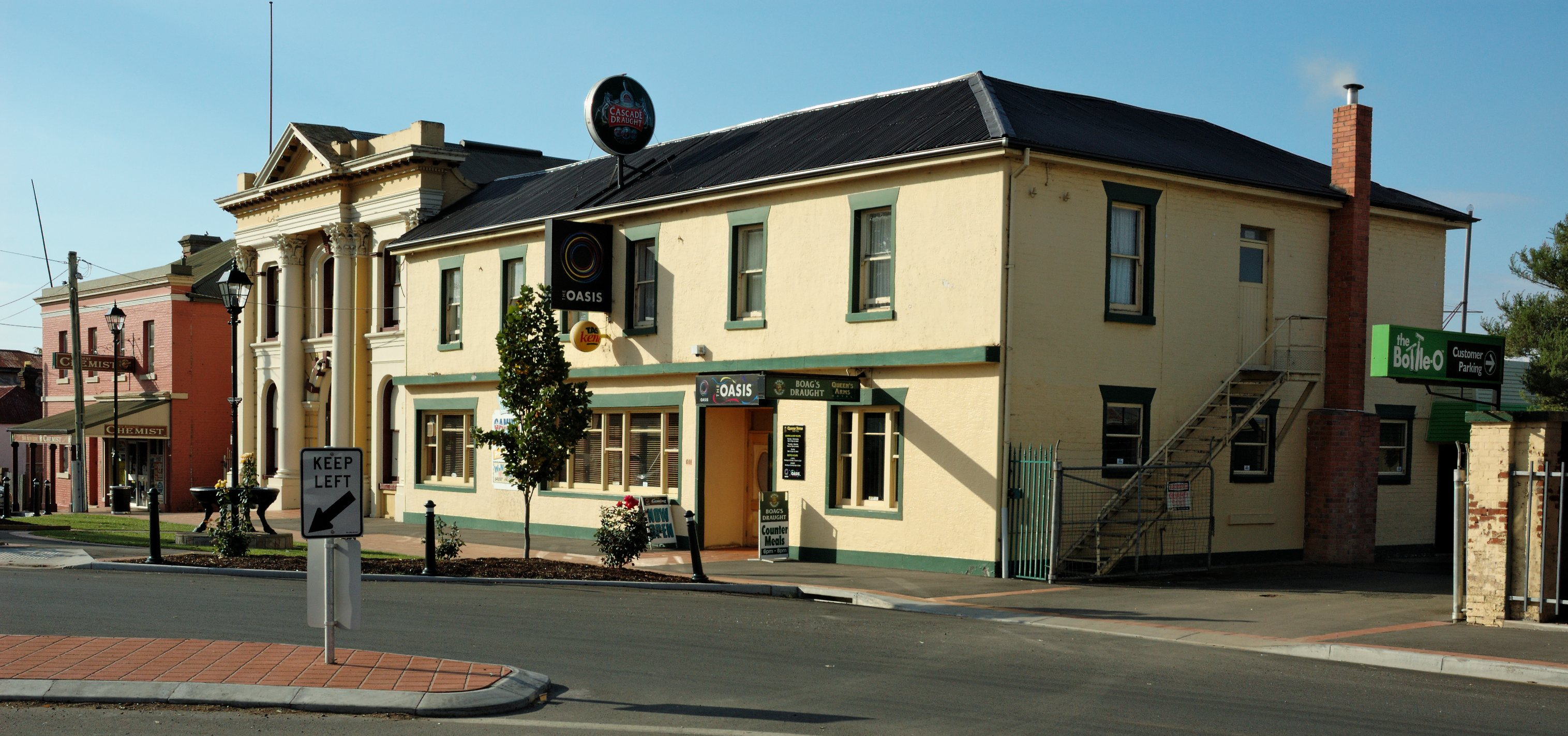 The Queen's Arms Hotel, Longford Tasmania, built about 1835. To its left is Longford Town Hall (1880) and the chemist at 65 Wellington Street (about 1860).